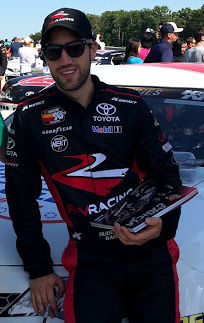 Ruben Garcia Jr. at New Jersey Motorsports Park in 2018